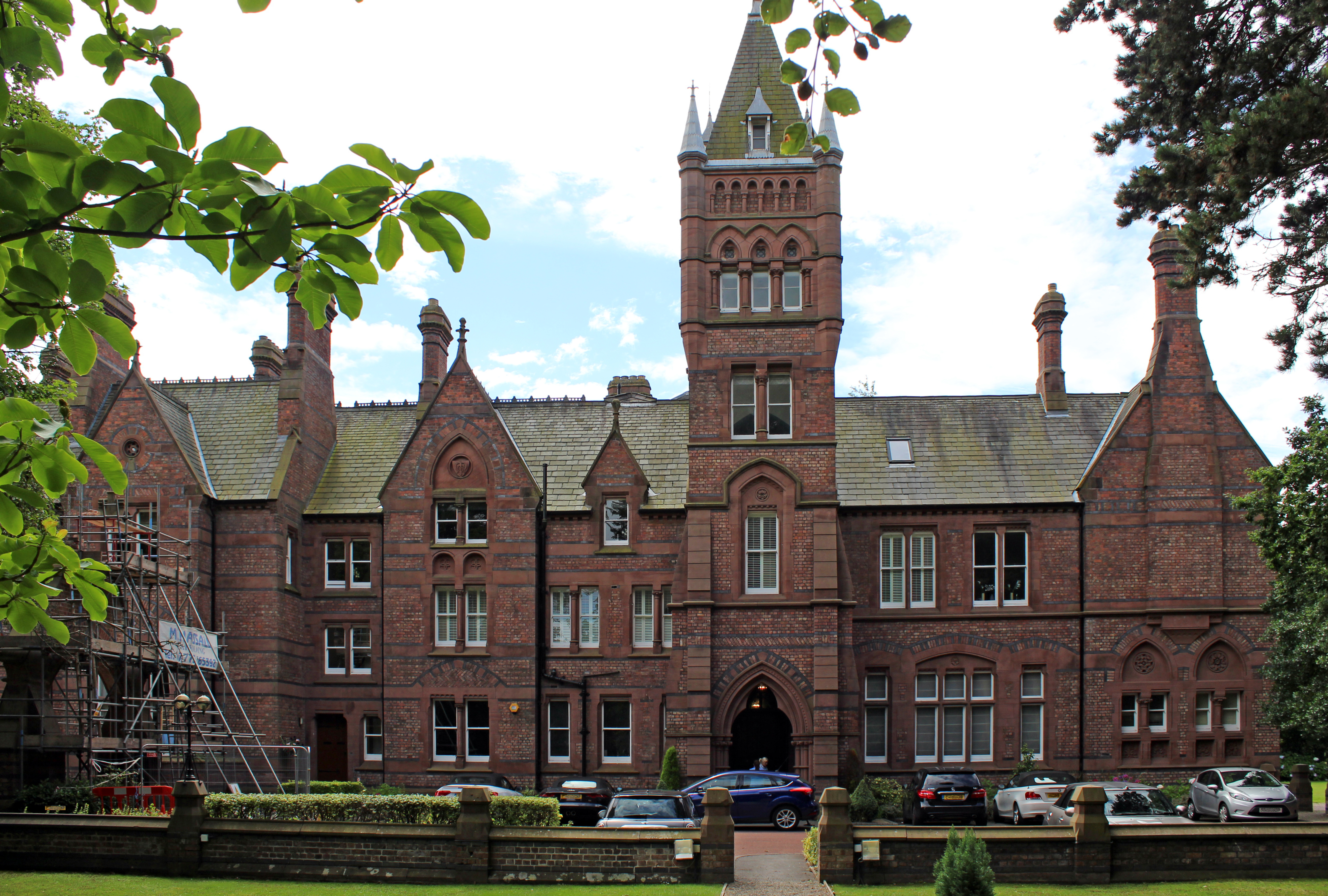 Front elevation; right-hand part only since the geometry of the site makes it difficult to get a shot of the whole of the front elevation.